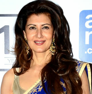 Sangeeta Bijlani at Anita Dongre's show at Lakme Fashion Week 2015